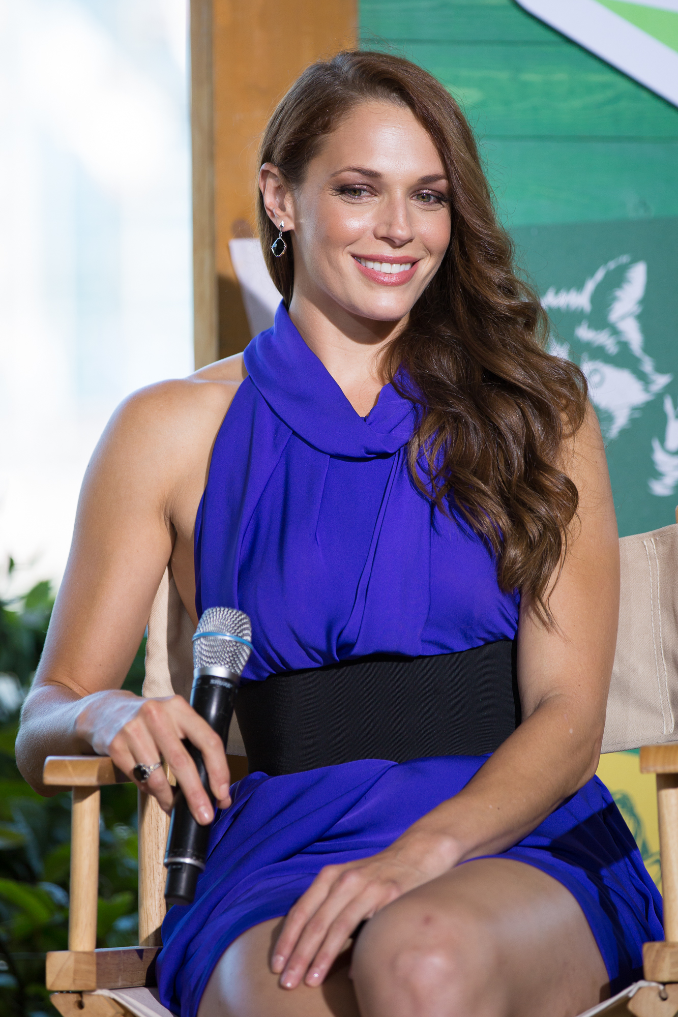 Amanda Righetti at the Camp Conival presentation for Colony offsite at Petco Park during San Diego Comic-Con 2016